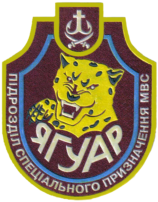 Шеврон спецпідрозділу МВС «Ягуар».